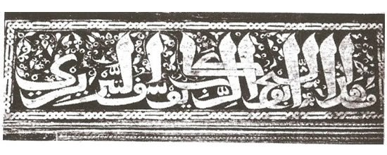 Plaque in Friday Mosque, in Maldivian capital